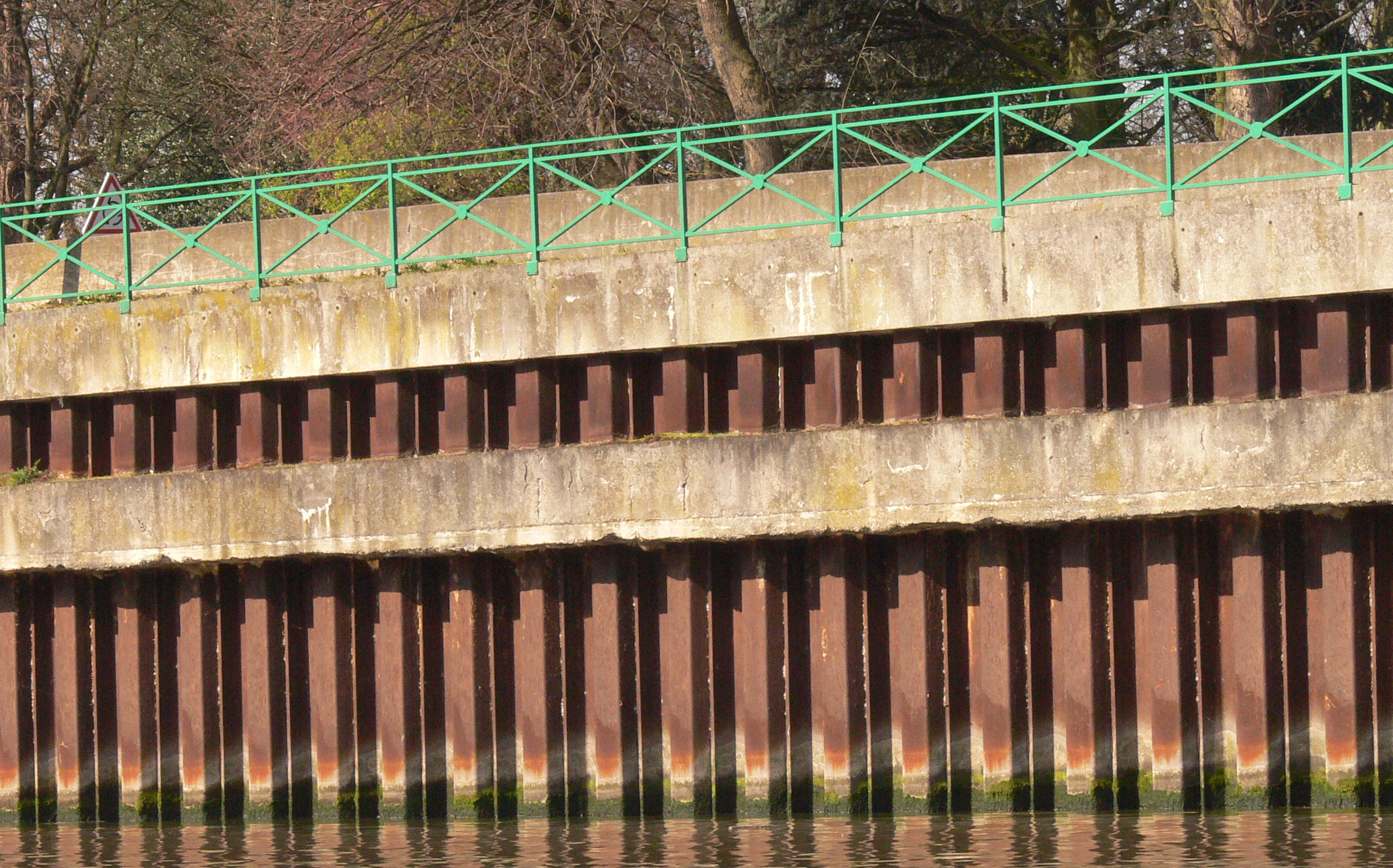 Lambersart, on the edge of the Deûle River, in the north of france, near Lille